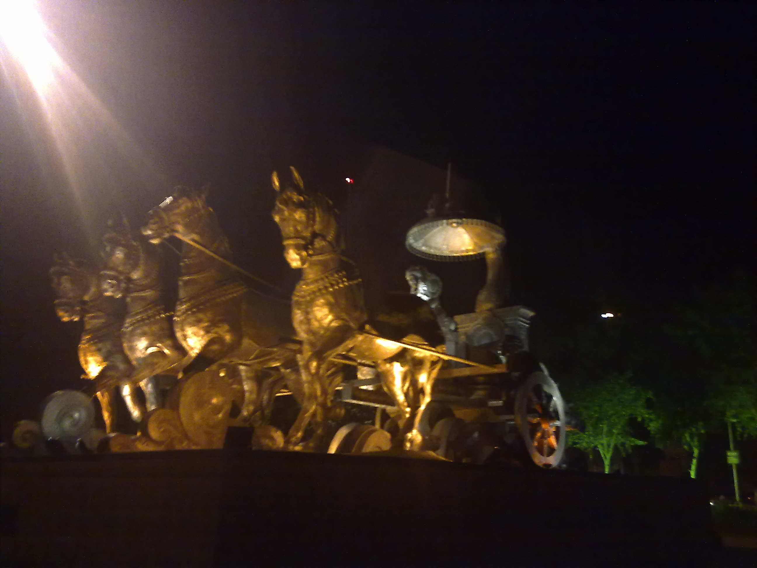 This image shows the view of Sri Krishna's Chariot at night. This is located in the main Brahma Sarovar Compound in Kurukshetra, India.